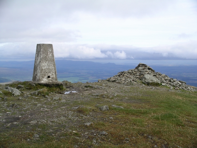 Summit, Ben Ledi. Looking ESE towards the Ochil Hills